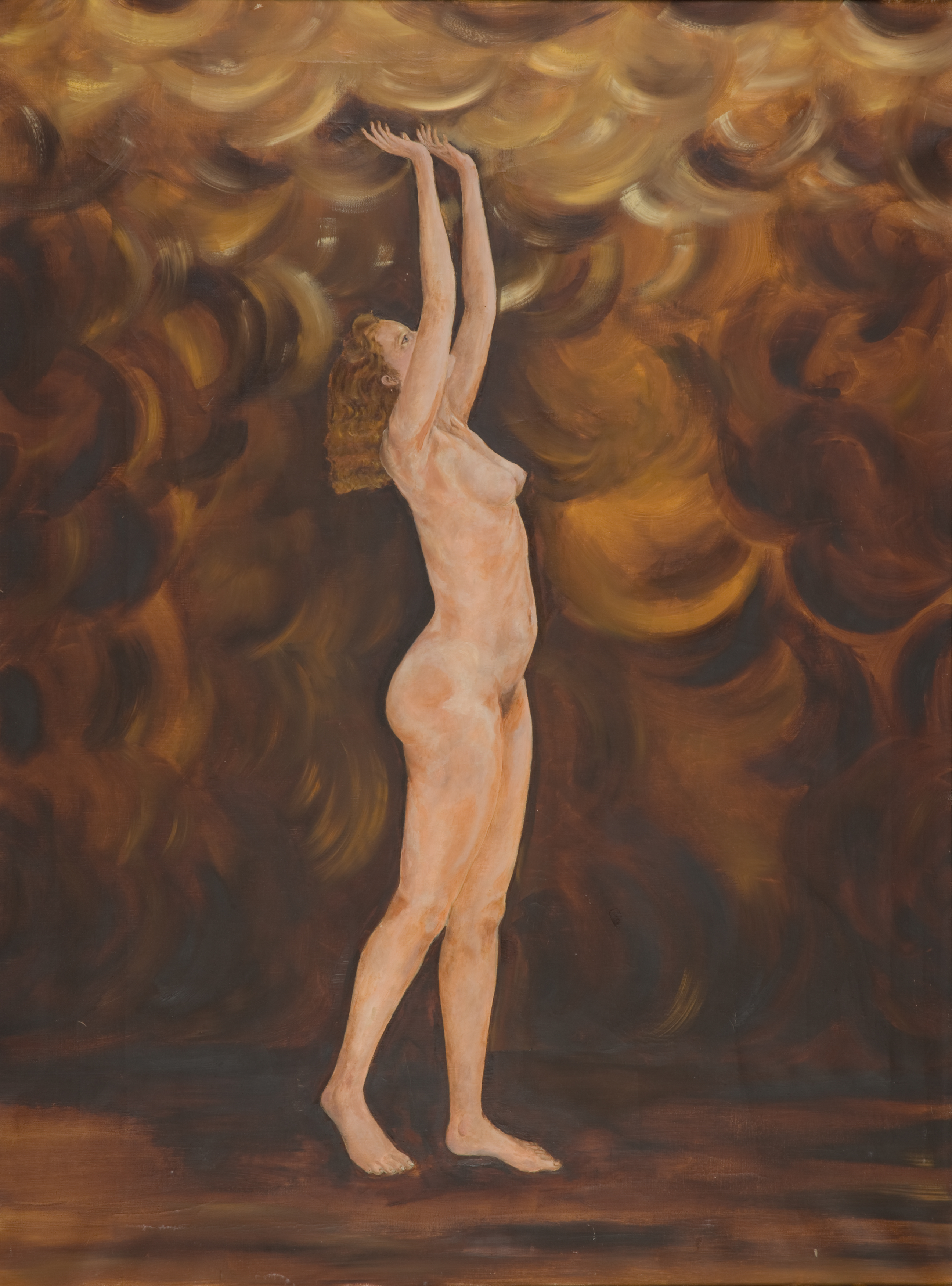 Oil on Canvas 80 x 60 cm